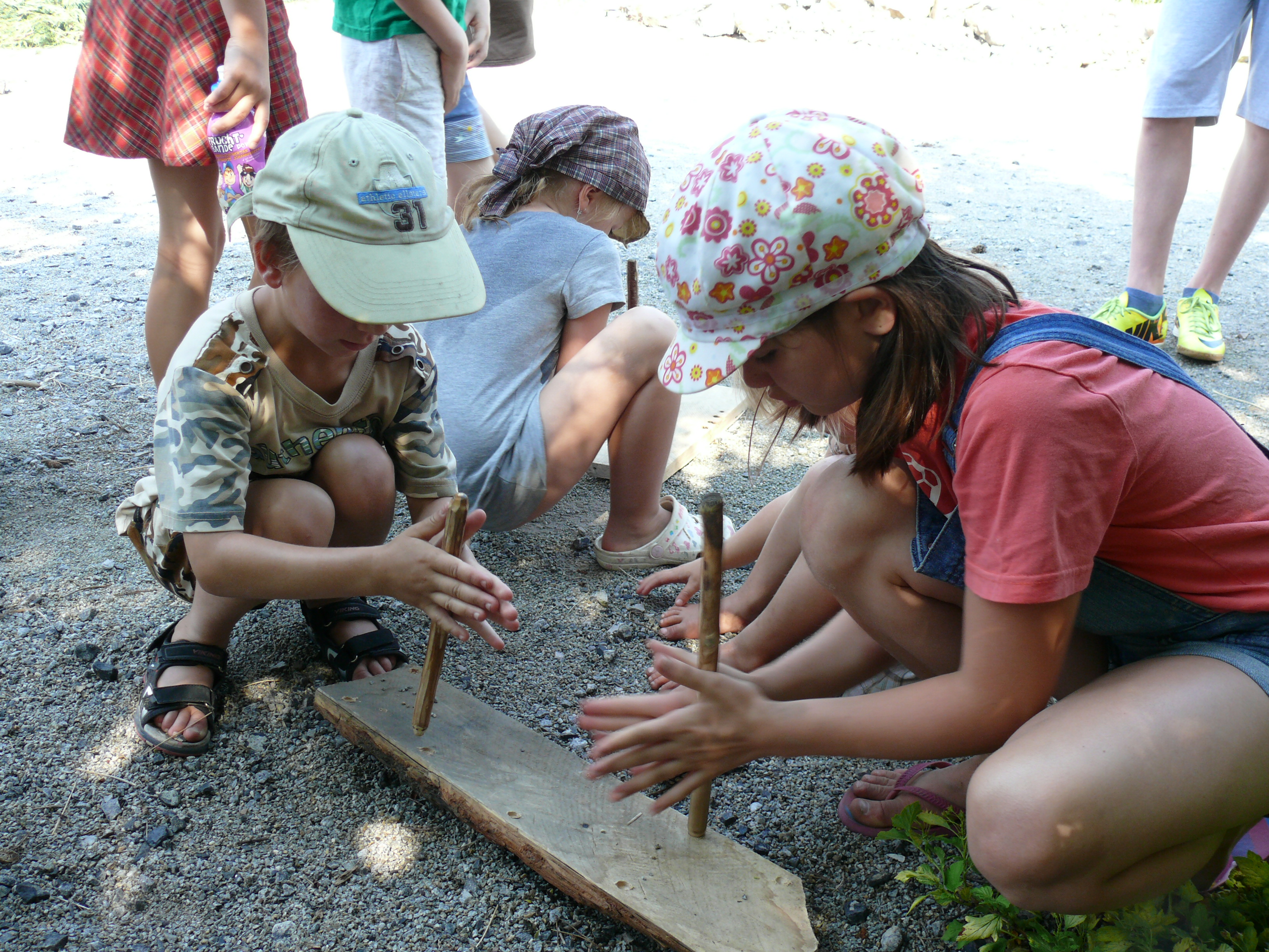 palying in Nature History Museum Tyn nad Vltavou